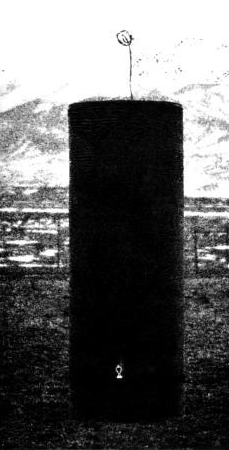 Experiment in wireless power transmission by inventor Nikola Tesla at his Colorado Springs, USA laboratory around 1899. The light glowing near the bottom is powered by energy transmitted wirelessly from the huge 20 megavolt magnifying transmitter in his lab nearby. The grounded "receiver" coil shown is tuned to resonance with the transmitter coil, and the lamp is powered by three turns of wire inductively coupled to the coil at bottom. The Century magazine article containing this picture does not say how far away the transmitter is. Information from Leland I. Anderson, Ed. (2002) Nikola Tesla on His Work with Alternating Currents and Their Application to Wireless Telegraphy, Telephony, and Transmission of Power: An Extended Interview, 21st Century Books, p. 97 Caption: Fig 4. EXPERIMENT TO ILLUSTRATE THE TRANSMISSION OF ELECTRICAL ENERGY THROUGH THE EARTH WITHOUT WIRE. The coil shown in the photograph has its lower end or terminal connected to the ground, and is exactly attuned to the vibrations of a distant electrical oscillator. The lamp lighted is in an independent wire loop, energized by induction from the coil excited by the electrical vibrations transmitted to it through the ground from the oscillator, which is worked only to five per cent. of its full capacity.